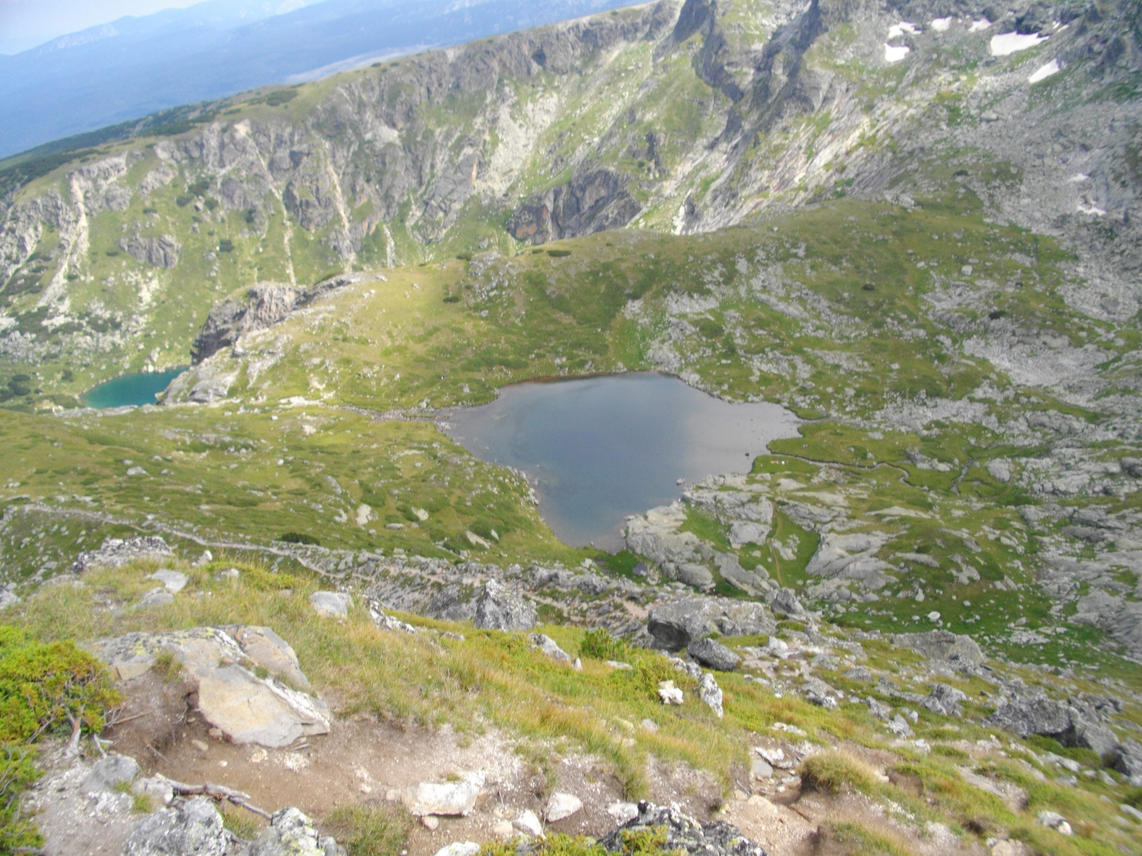 The Purity and The sighting lakes in Rila Mountain